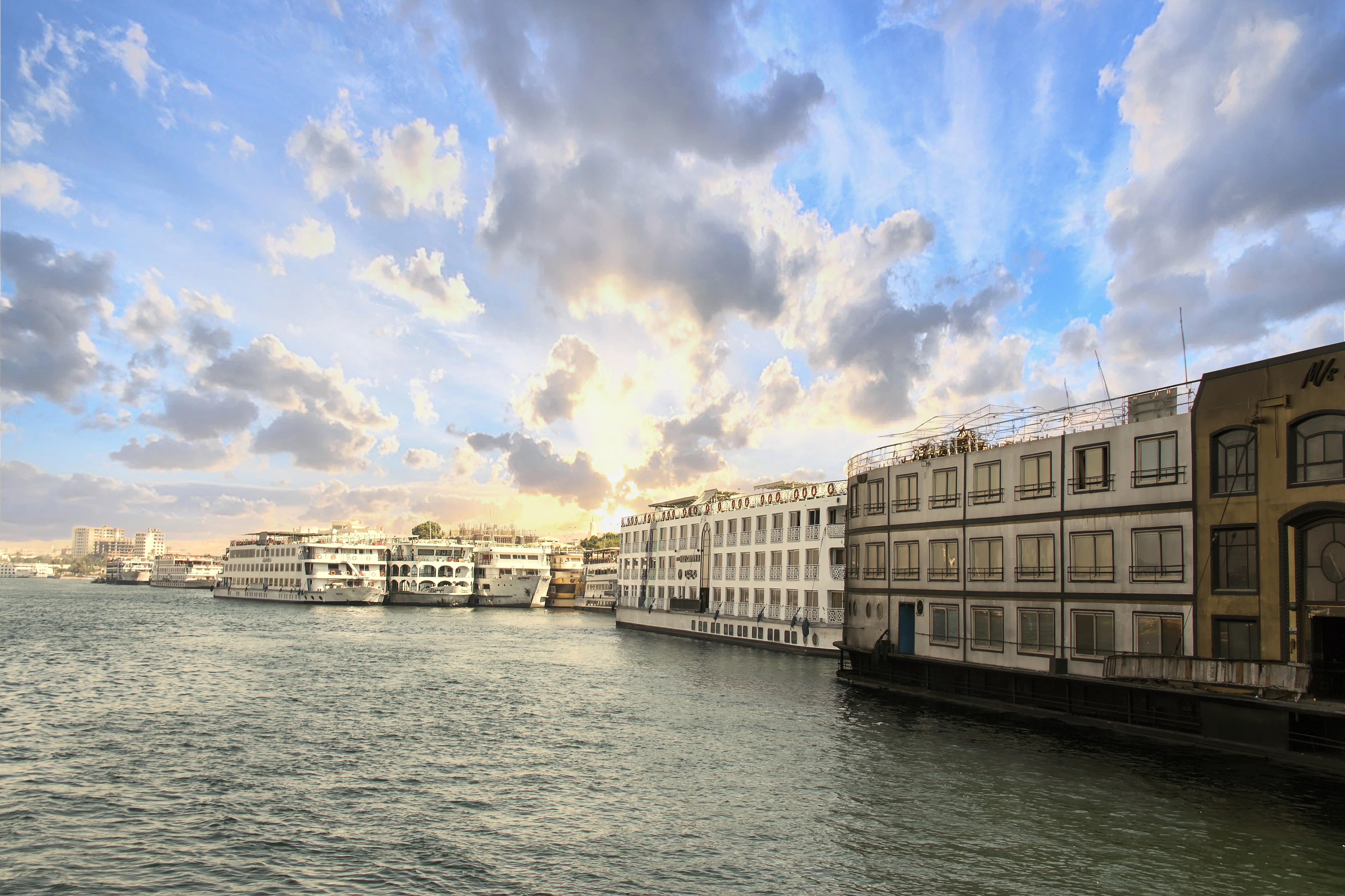 A Nile River cruise - Aswan - Egypt This is an image with the theme "Africa on the Move or Transport" from: Egypt